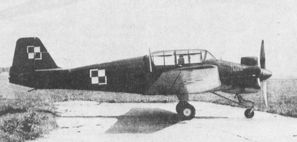 Polish Junak 3 trainer Photo from "Młody Technik" from 1980s.